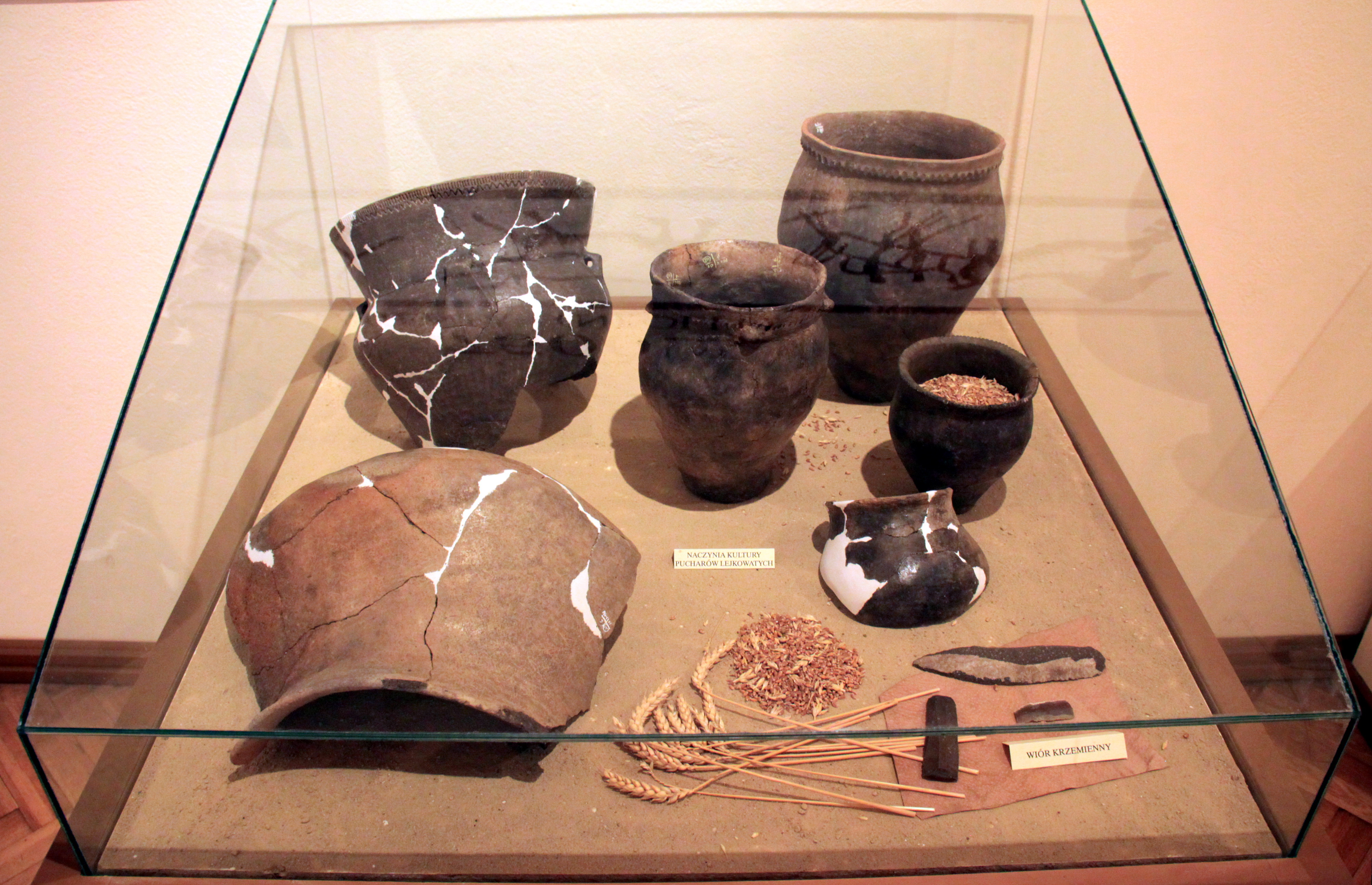 Pottery of Funnelbeaker culture from Pełczyska (Poland, Świętokrzyskie Voivodeship).